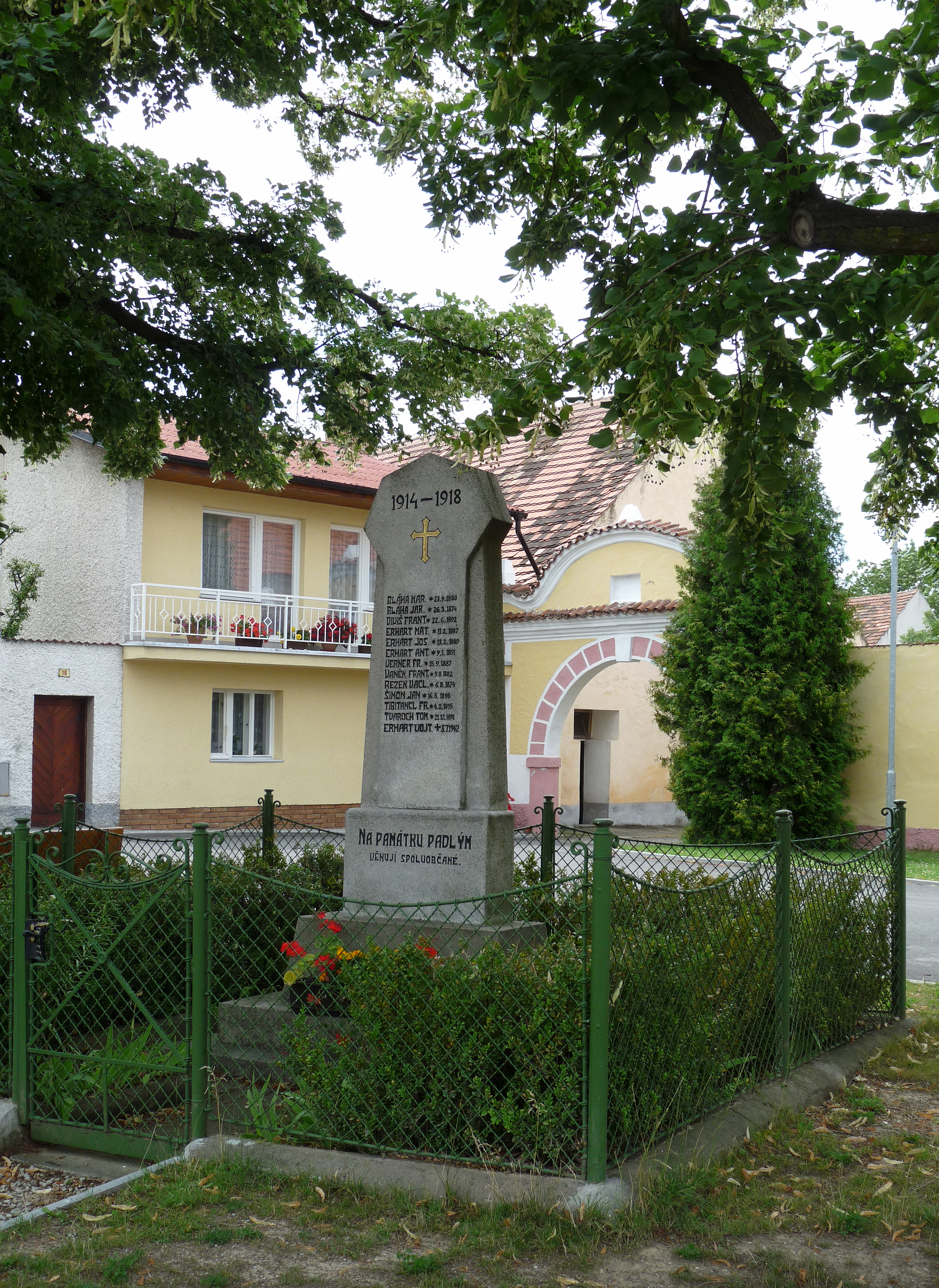 Memorial to those killed in the world wars in the village of Doubravice, České Budějovice District, Czech Republic. Česky: Pomník obětem světových válek obci Doubravice, okres Českých Budějovice.